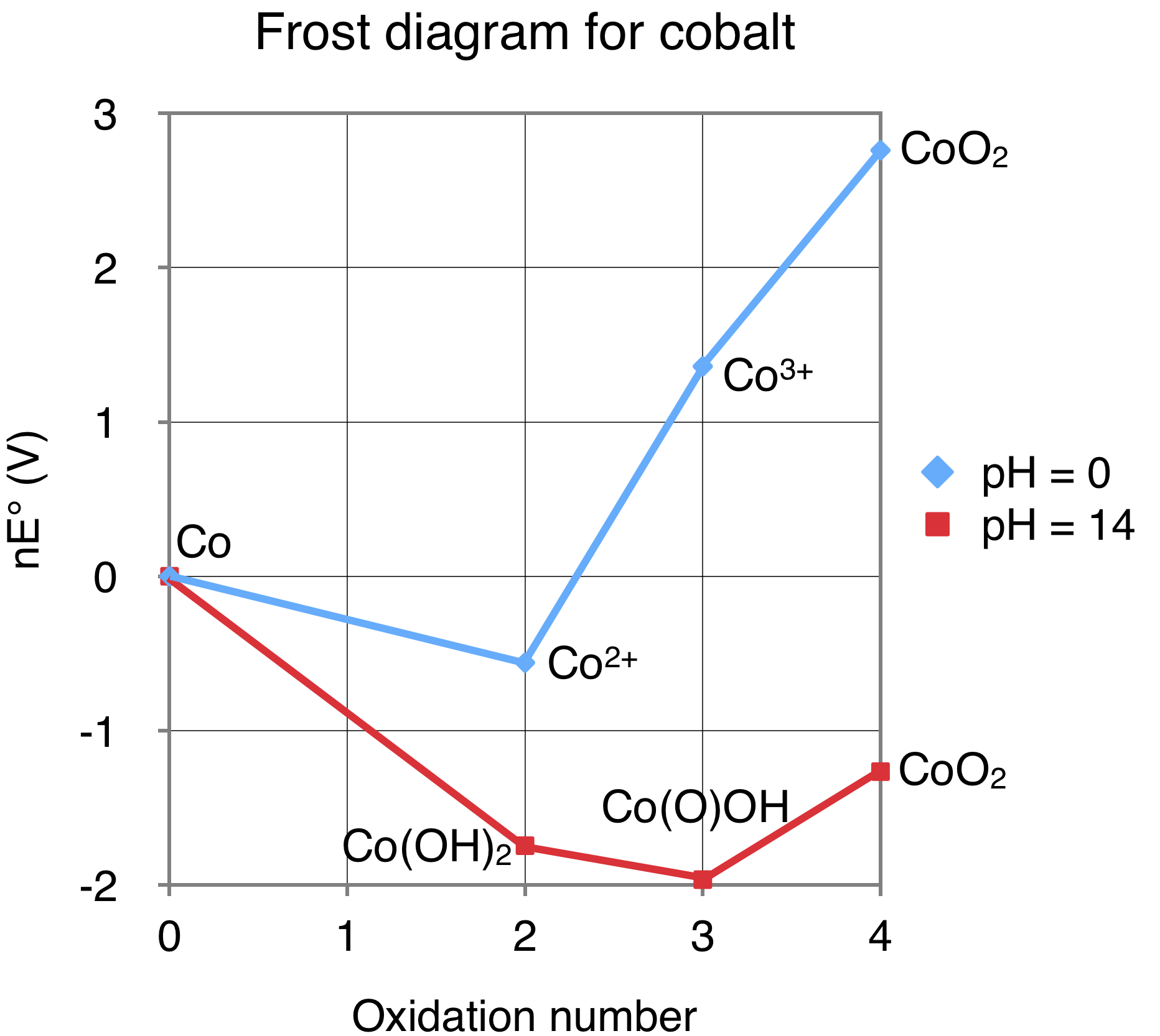 Frost diagram for cobalt. Data from Shriver & Atkins' Inorganic Chemistry, 5th Edition, 2010